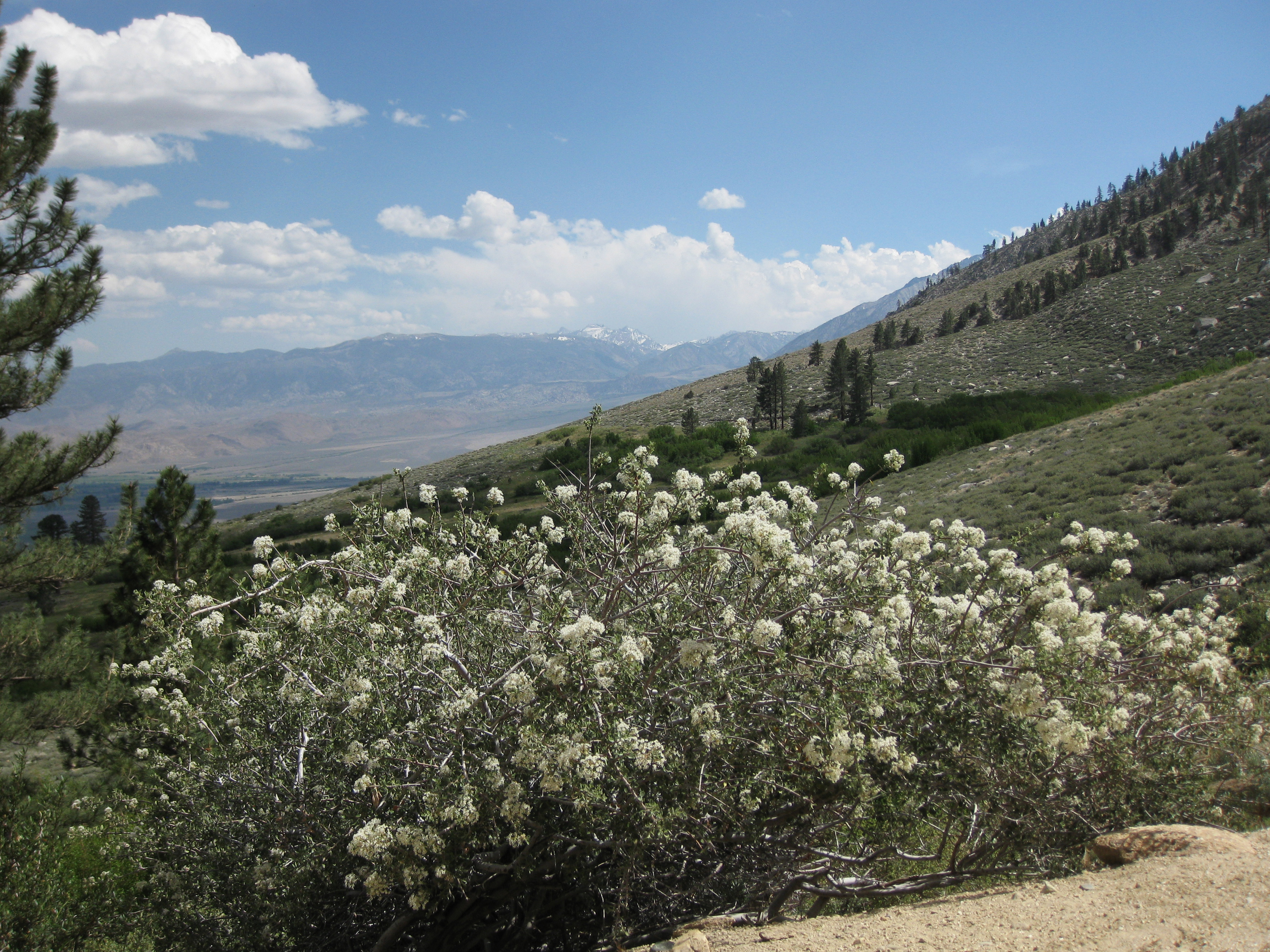 Cupleaf ceanothus (Ceanothus greggii), view of blooming bush in mountainside setting. Looking SW at 7000ft in the Eastern Sierra, Swall Meadows, California. Bishop Pass in the distance.